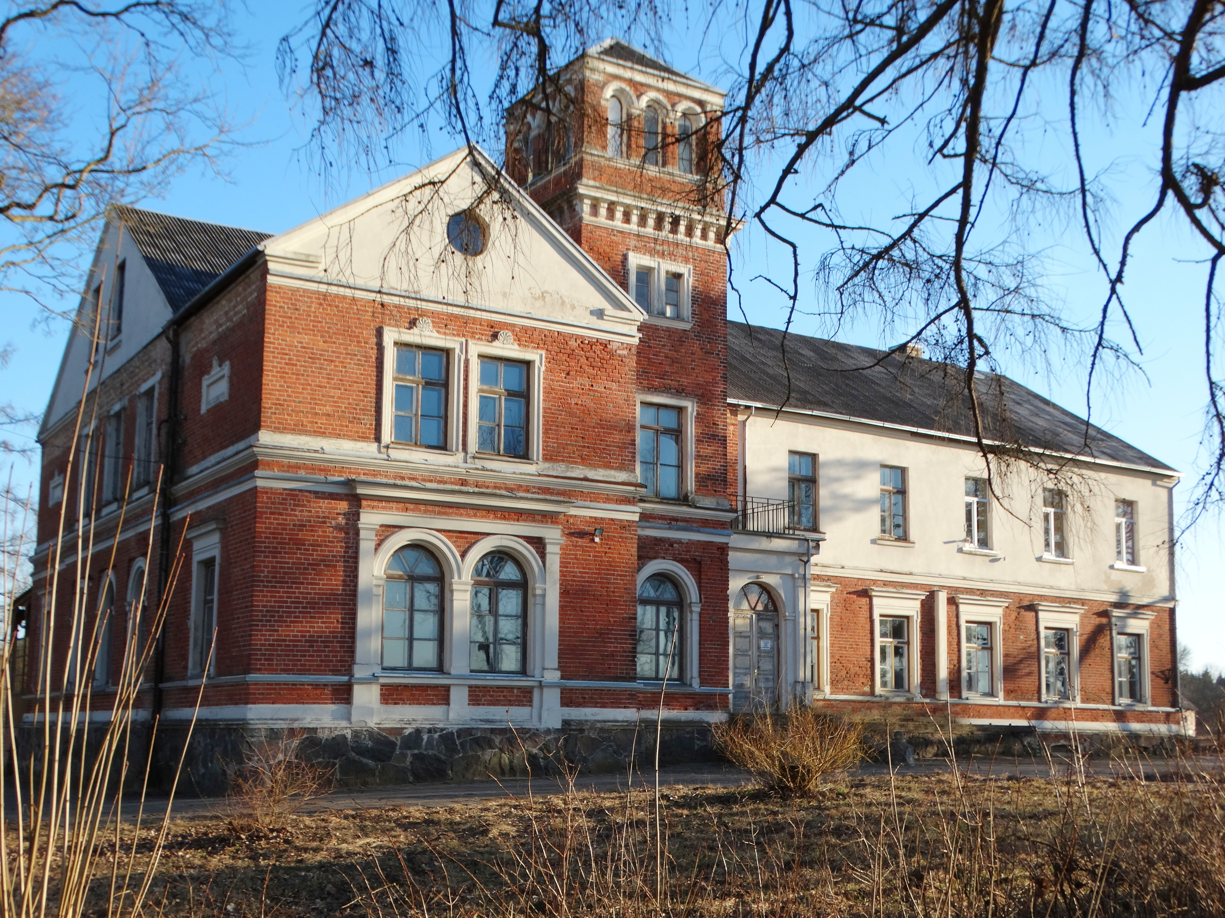 Manor, Varputėnai, Šiauliai district, Lithuania